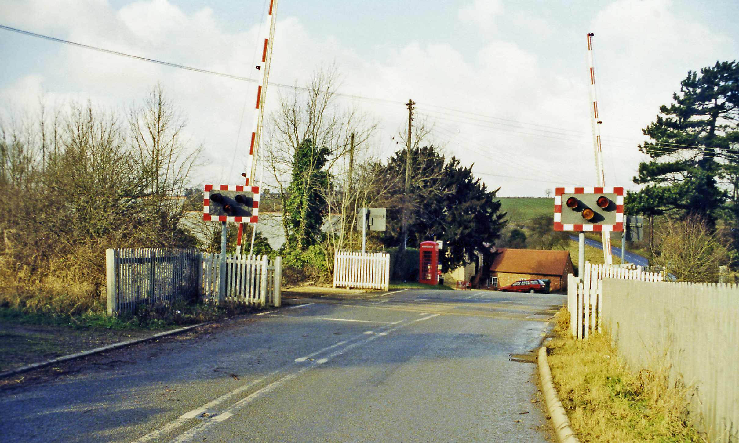 Level-crossing at former Luffenham station. View NW towards North Luffenham: the station had been on the right and was closed 6/6/66 when the ex-LNW link, which had come in on the left from Seaton, was closed along with the Rugby - Market Harborough - Seaton - Peterborough East line. The main line is the ex-Midland from Leicester/Nottingham - Melton Mowbray and Manton (to left) to Stamford and Peterborough North (to right).